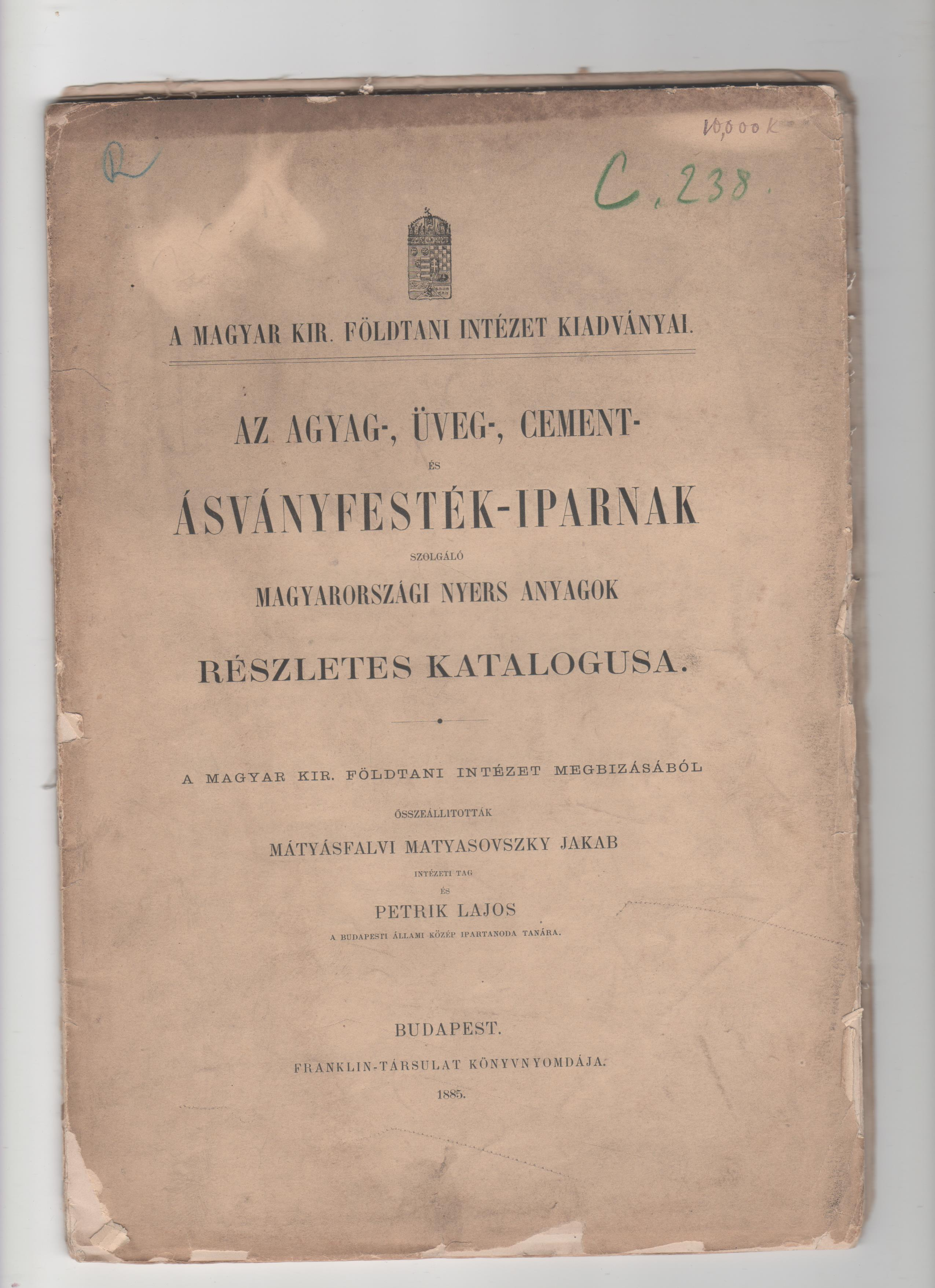 Geological article published by Lajos Petrik and Jakab Mattyasovszky in 1885